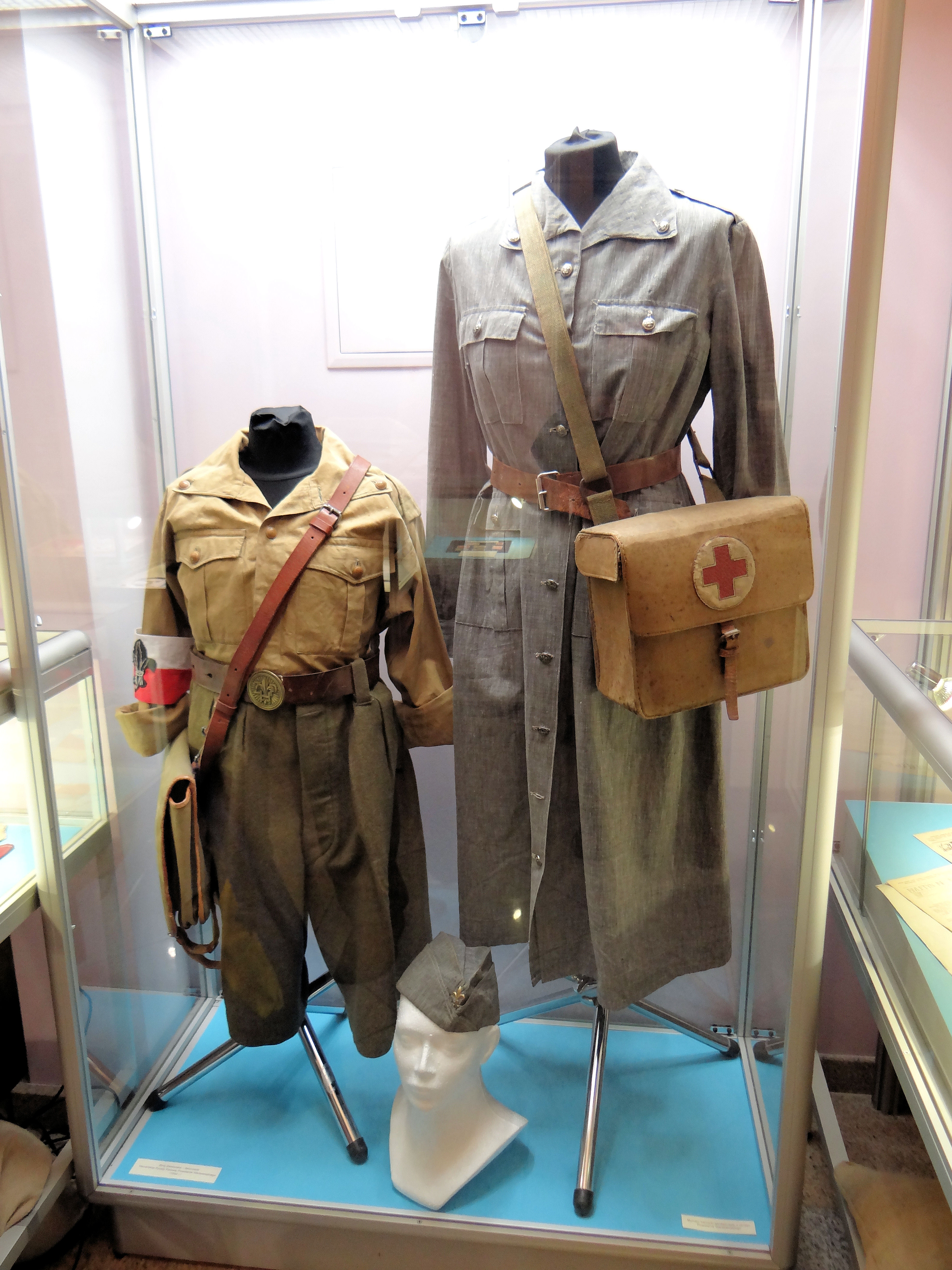 Scouting Museum in Warsaw